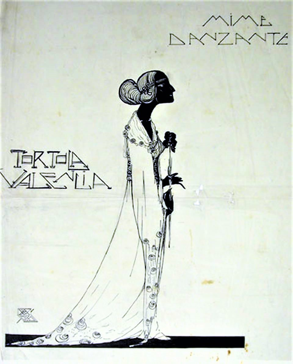 Mime Danzamte